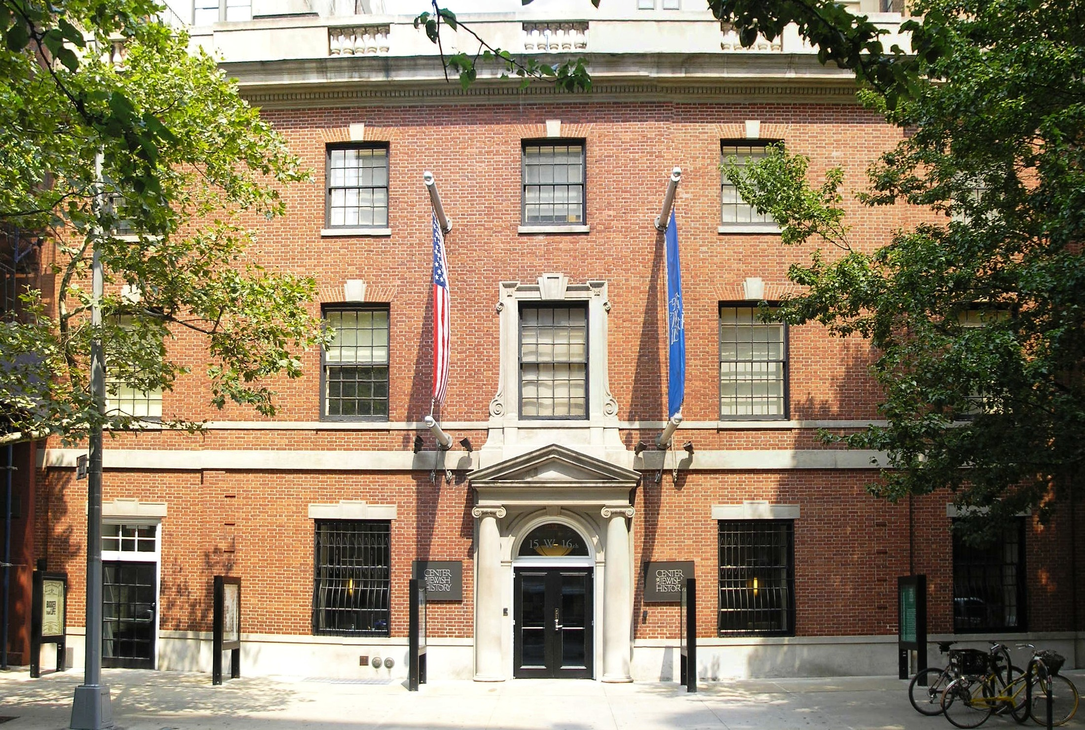 The Center for Jewish History is located on 15 West 16th Street, between 5th and 6th Avenues, in New York, NY 10011. It is home of five preeminent Jewish institutions dedicated to history, culture, and art: The American Jewish Historical Society, The American Sephardi Federation, The Leo Baeck Institute, Yeshiva University Museum, and The YIVO Institute for Jewish Research.